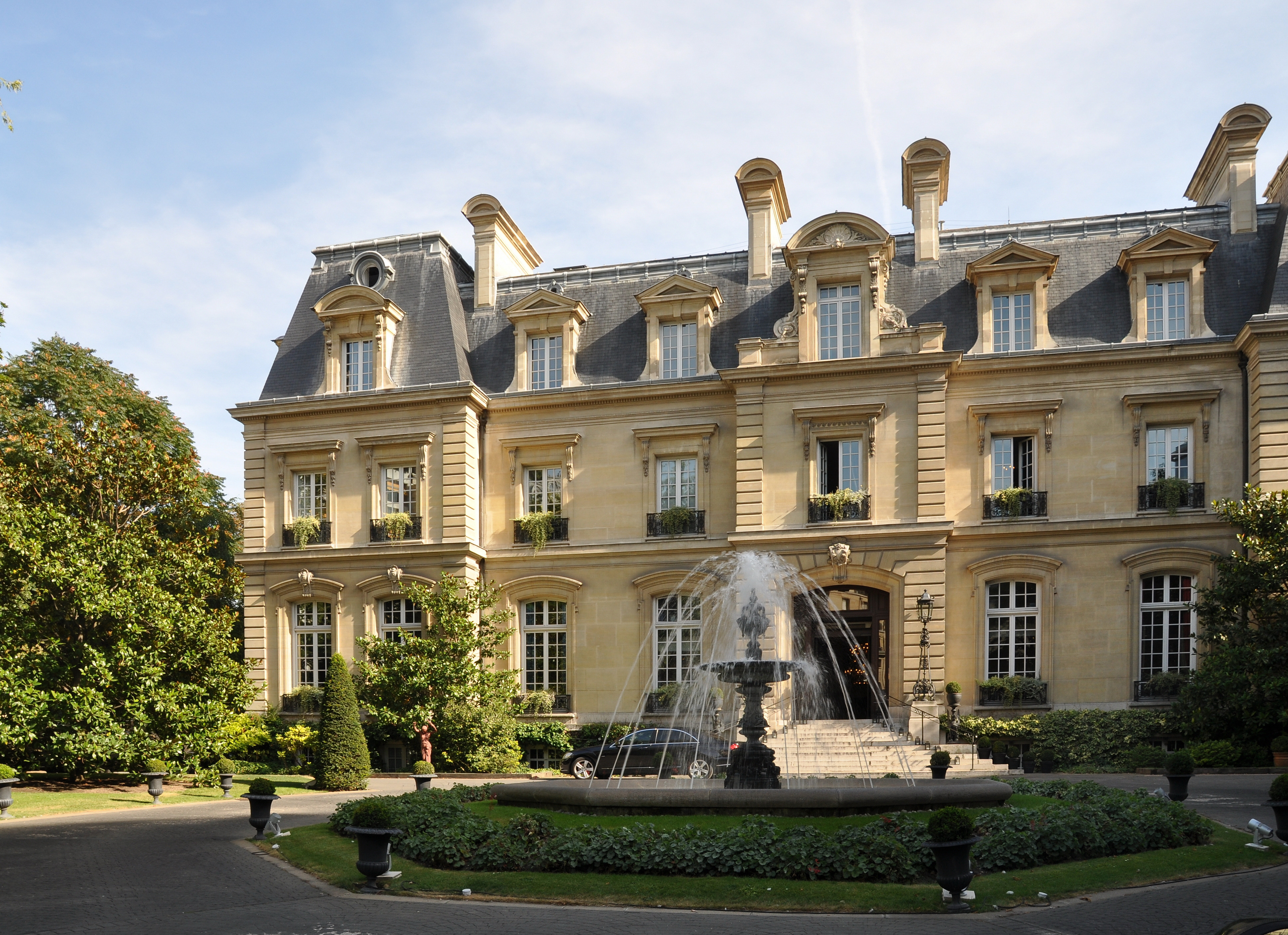 Thiers Foundation located at 5 place du Chancelier-Adenauer in the 16th arrondissement of Paris in France. The building is listed as a historical monument by the French Ministry of Culture.